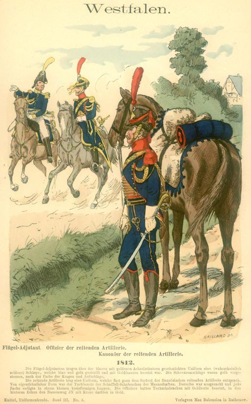 Westfalen. Reitende Artillerie. 1812